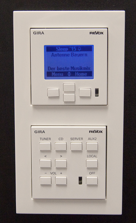 Gira control unit for the Revox multiroom system // Exhibits at HighEnd 2009 trade show, Munich, April 2009